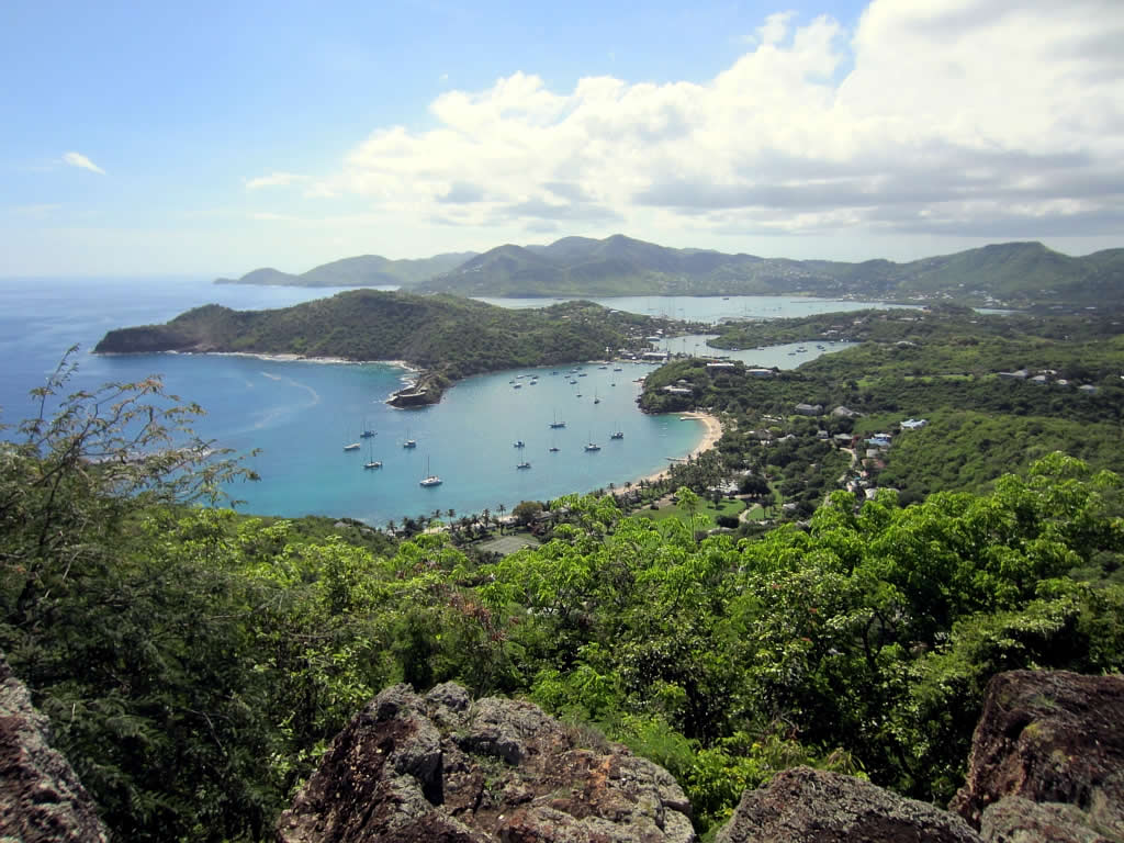 a panoramic view of English Harbour and southern Antigua from Shirley Heights